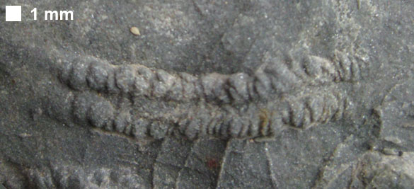 Cruziana trace fossil from the Devonian Brallier Formation or Harrell Formation at mile marker 137.8 on Pennsylvania Turnpike in Bedford County, Pennsylvania, on north side of road. This view is looking at the bottom side of a siltstone bed. Collected August 2011.